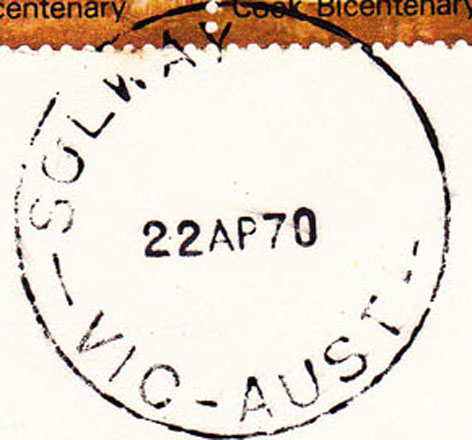 The Solway Post Office in Ashburton, Victoria was open 1954 to 1978